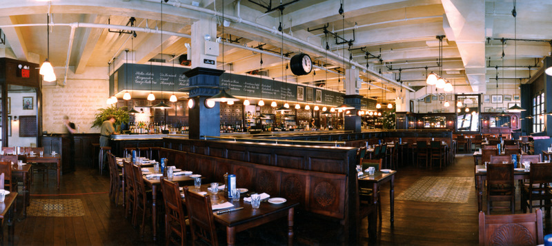 Belgian Beer Cafe in Dubai